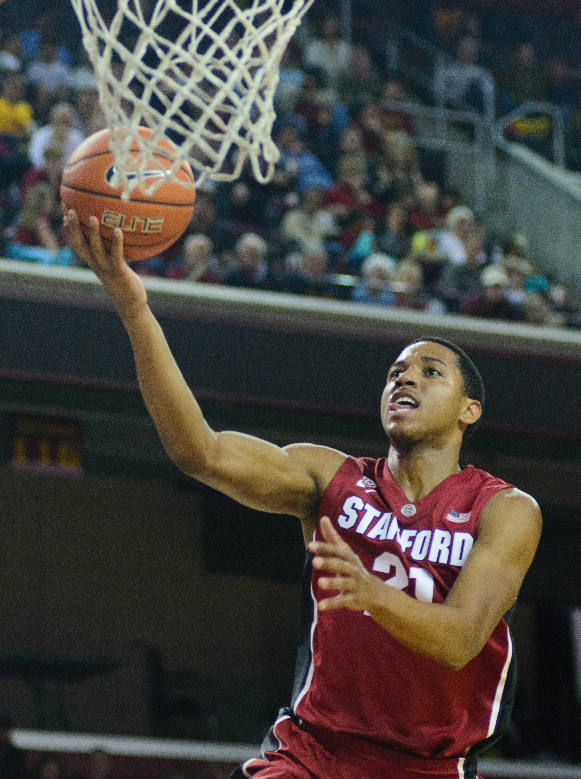 Stanford University guard/forward Anthony Brown lays up the ball in Stanford's away game at the University of Southern California on January 26, 2014 at the Galen Center in Los Angeles.